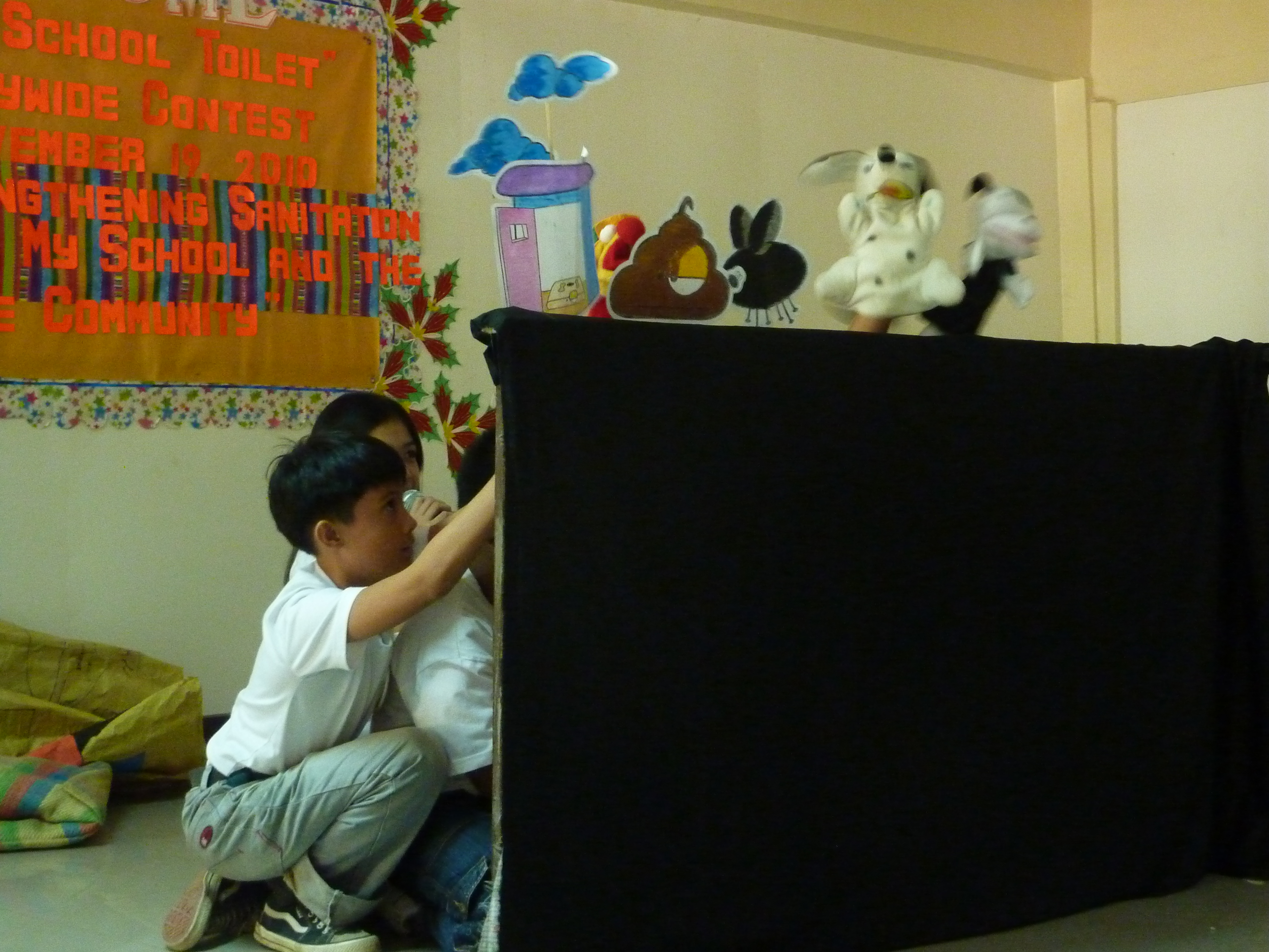 Philippines - World Water Day 2010